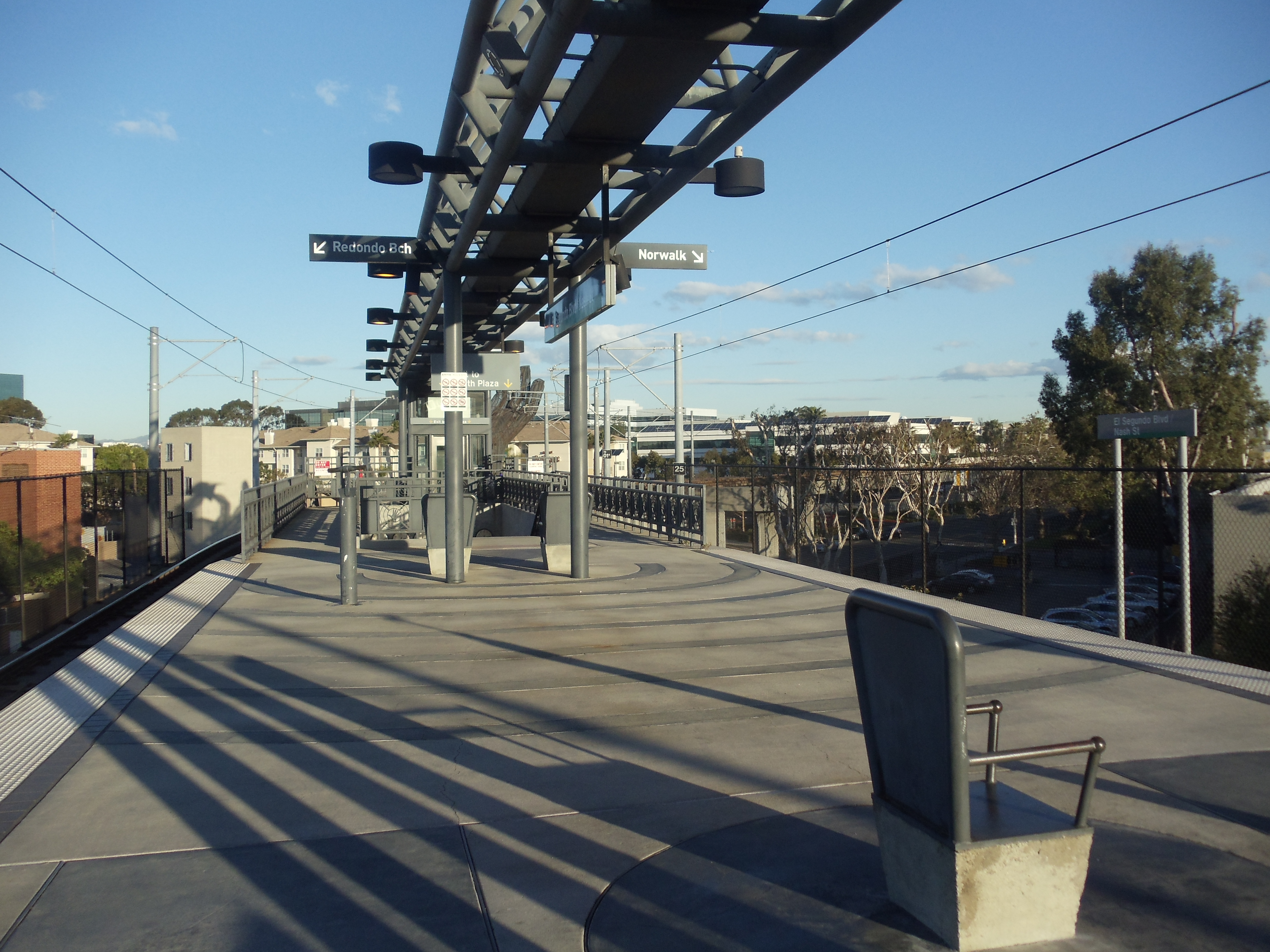 El Segundo Metro Green Line Station platform.